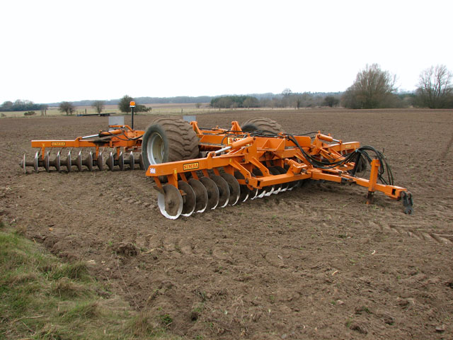 Cultivated field north of Illington Road, near to Illington, Norfolk, Great Britain. The farm implement seen in the foreground is a Simba disc harrow. When combined with a following press these harrows can turn stubble into a well cultivated and consolidated seedbed in one pass.